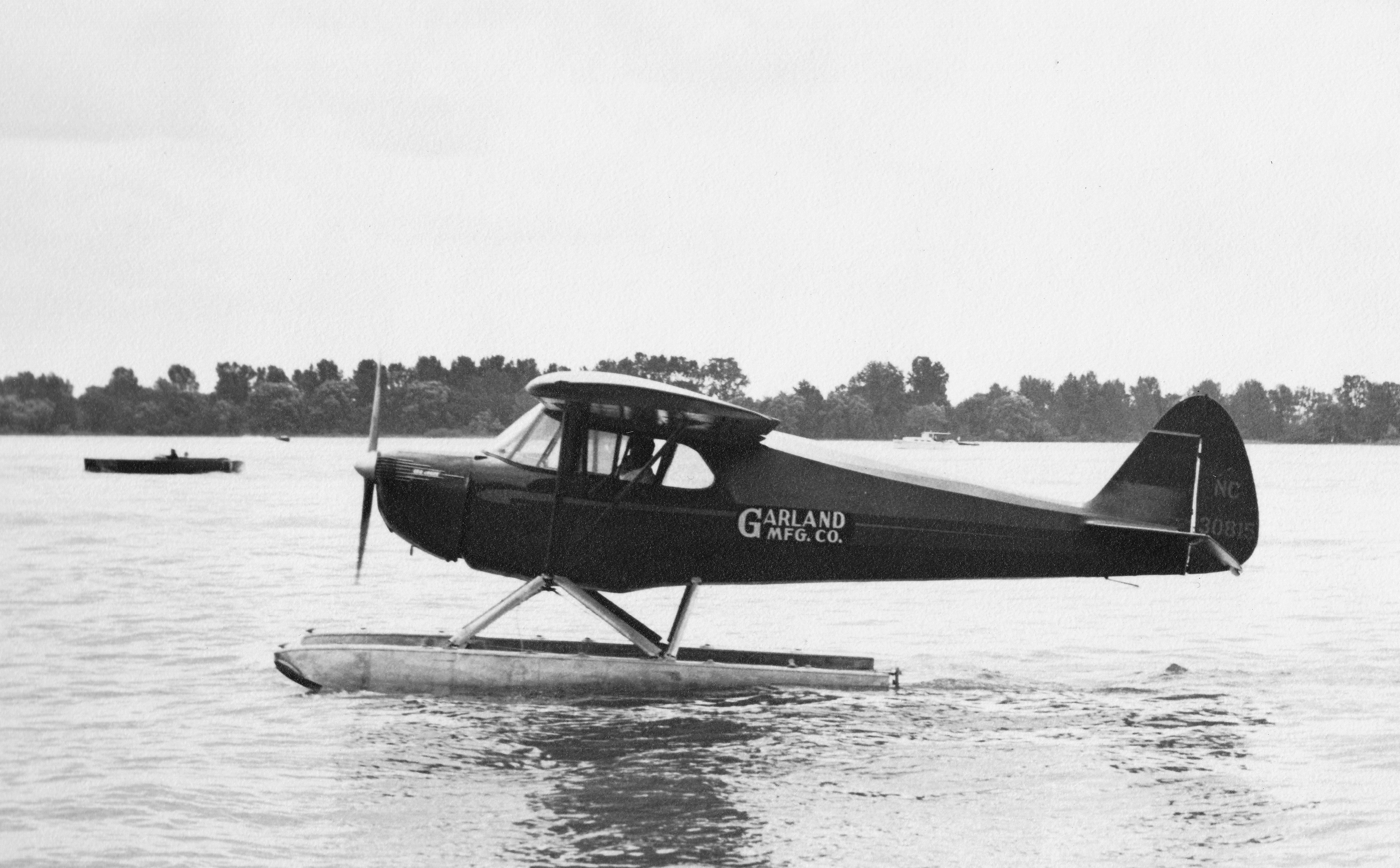 Harry G. Garland taxing his seaplane, bearing the Garland Manufacturing Company logo, on the Detroit River. In 1946 Garland’s Seaplane Base was one of 11 seaplane bases operating in Michigan. This Piper J-4A Cub Seaplane carried the registration number NC30815 and was powered by a Continental 65hp engine